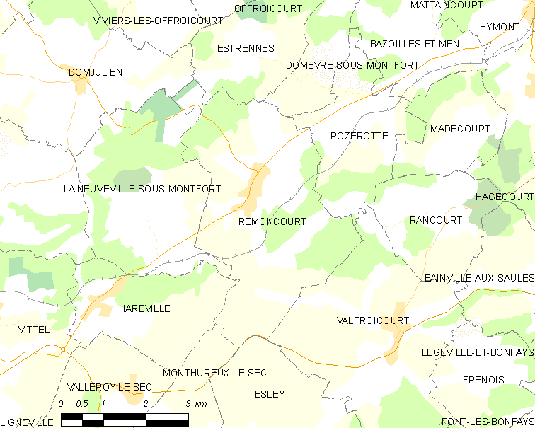 Map of French municipality Remoncourt